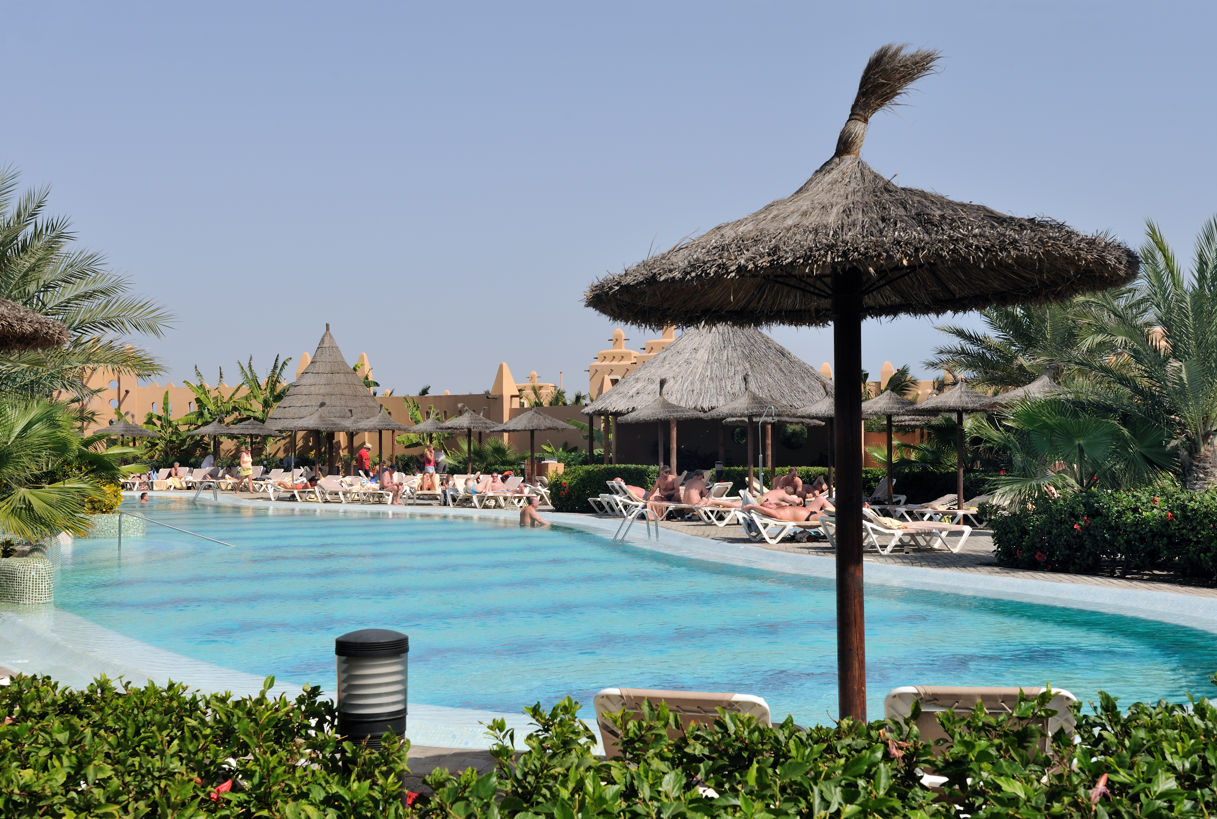 Hotel swimming pool at Santa Maria, isle of Sal, Cape Verde.